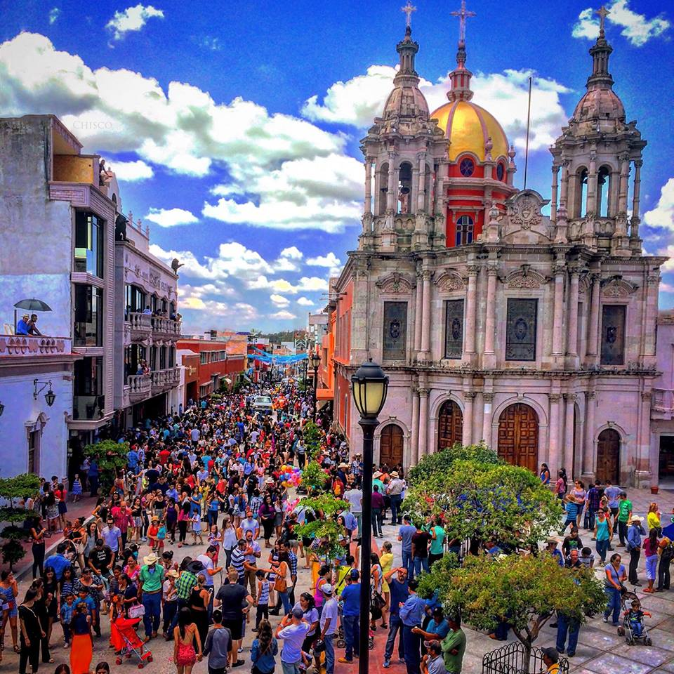 despues del desfile de carros alegoricos